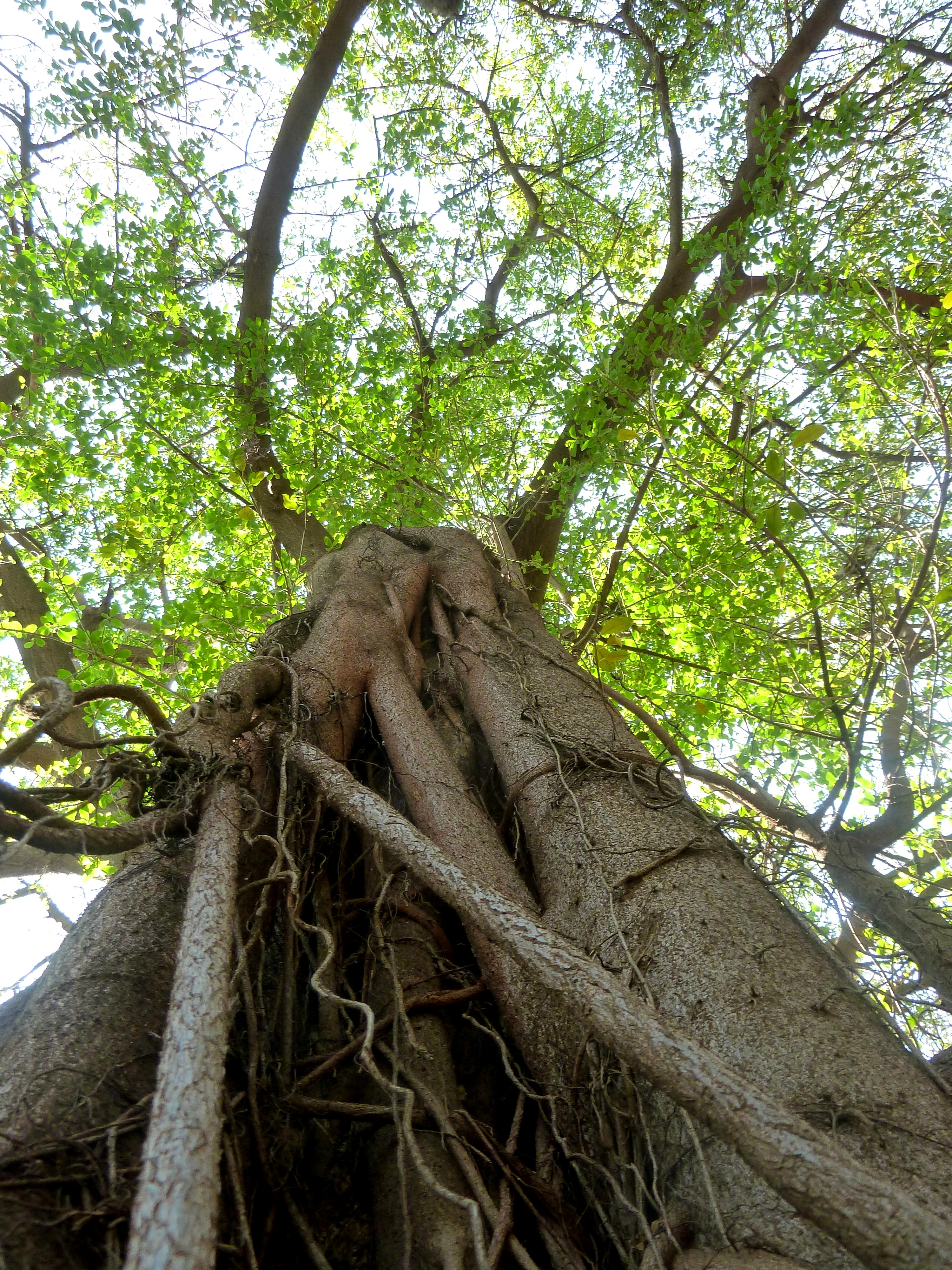 Habit of a Natal fig in the Manie van der Schijff Botanical Garden, Pretoria